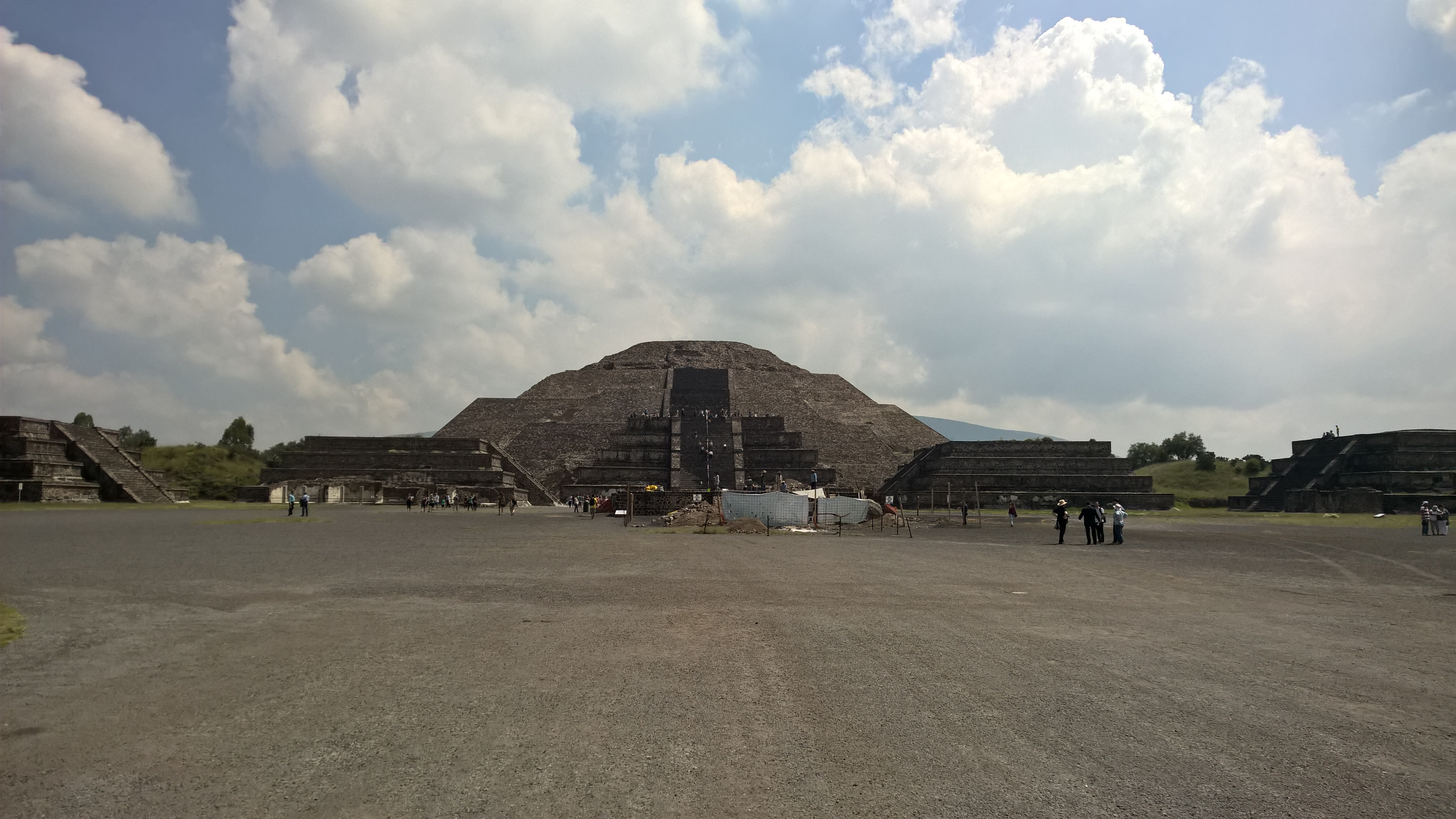 The Pyramid of the Moon in Teotihuacan, México